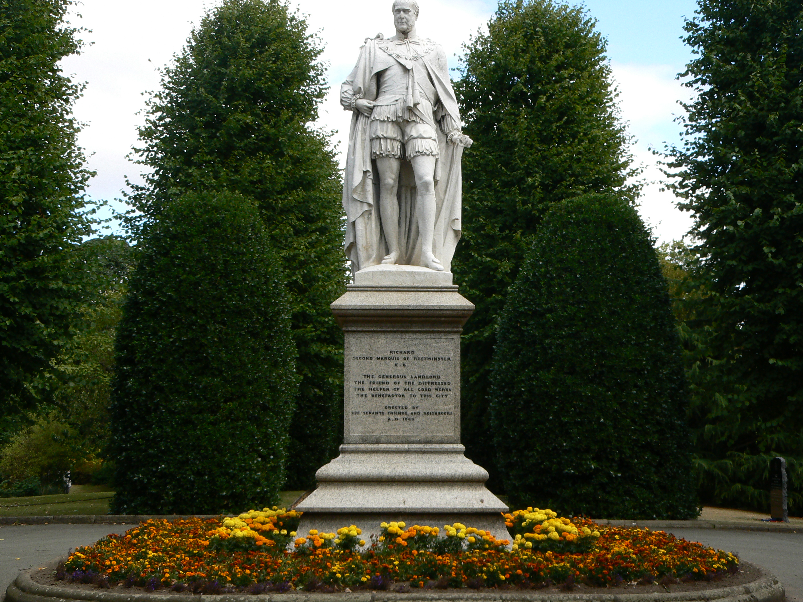 Richard Grosvenor - Statue in Grosvenor Park (Chester)- 1869